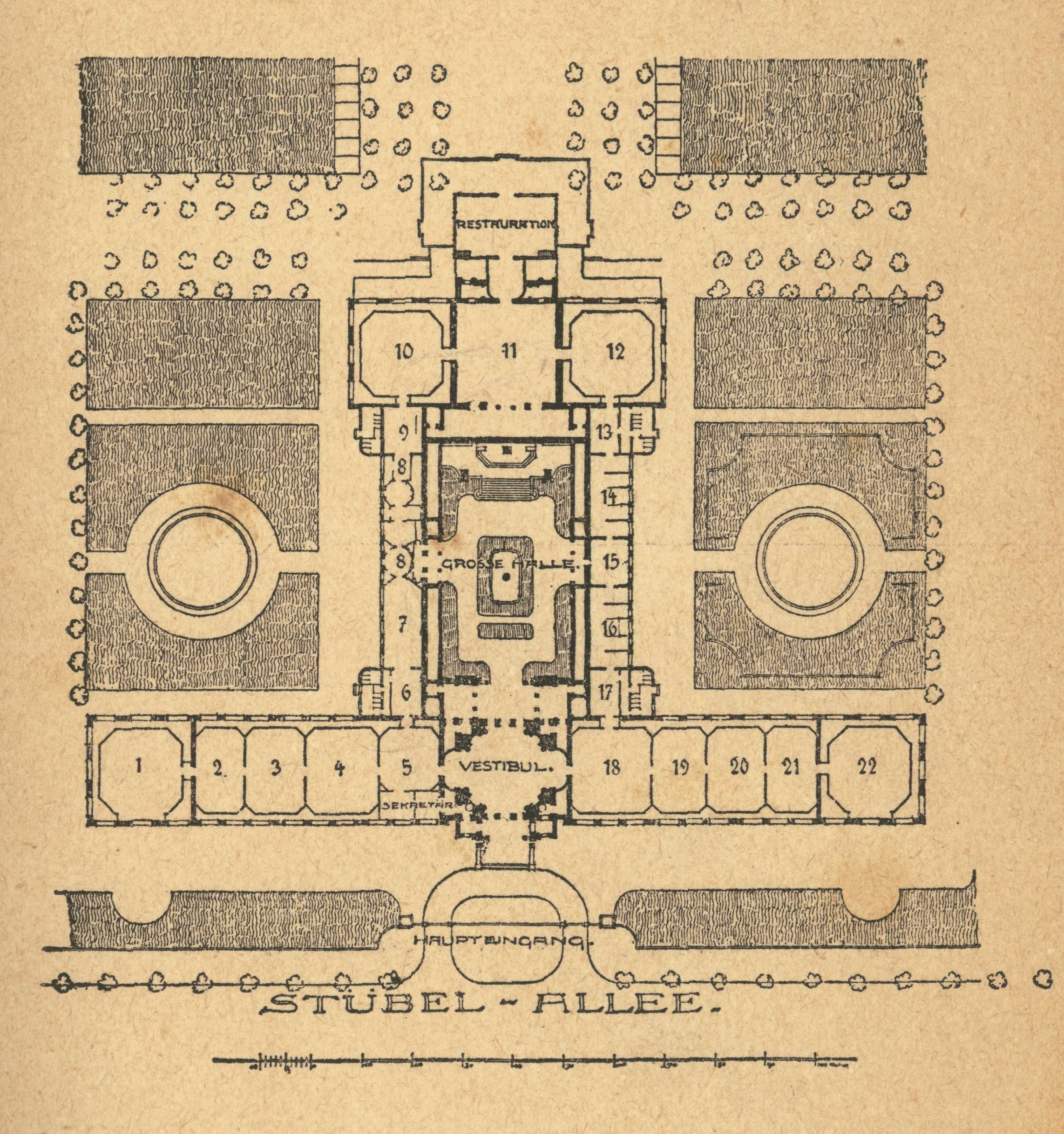 Exhibition Palace of Dresden, ground plan (1897), exhibition catalogue 1897 - International Art Exhibition, Dresden